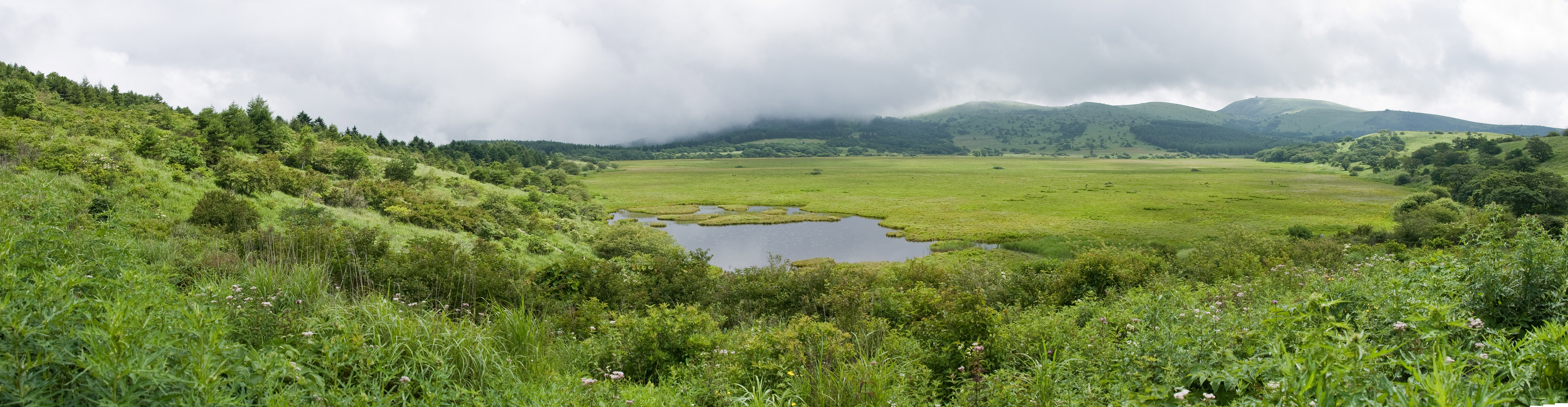 Yashimagahara wetland in Nagano Prefecture, Honshu, Japan